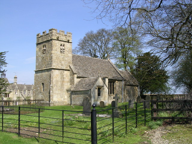 Salperton church. All saints. The church is some distance from the village, next to Salperton Hall, the edge of which can be seen to the left.